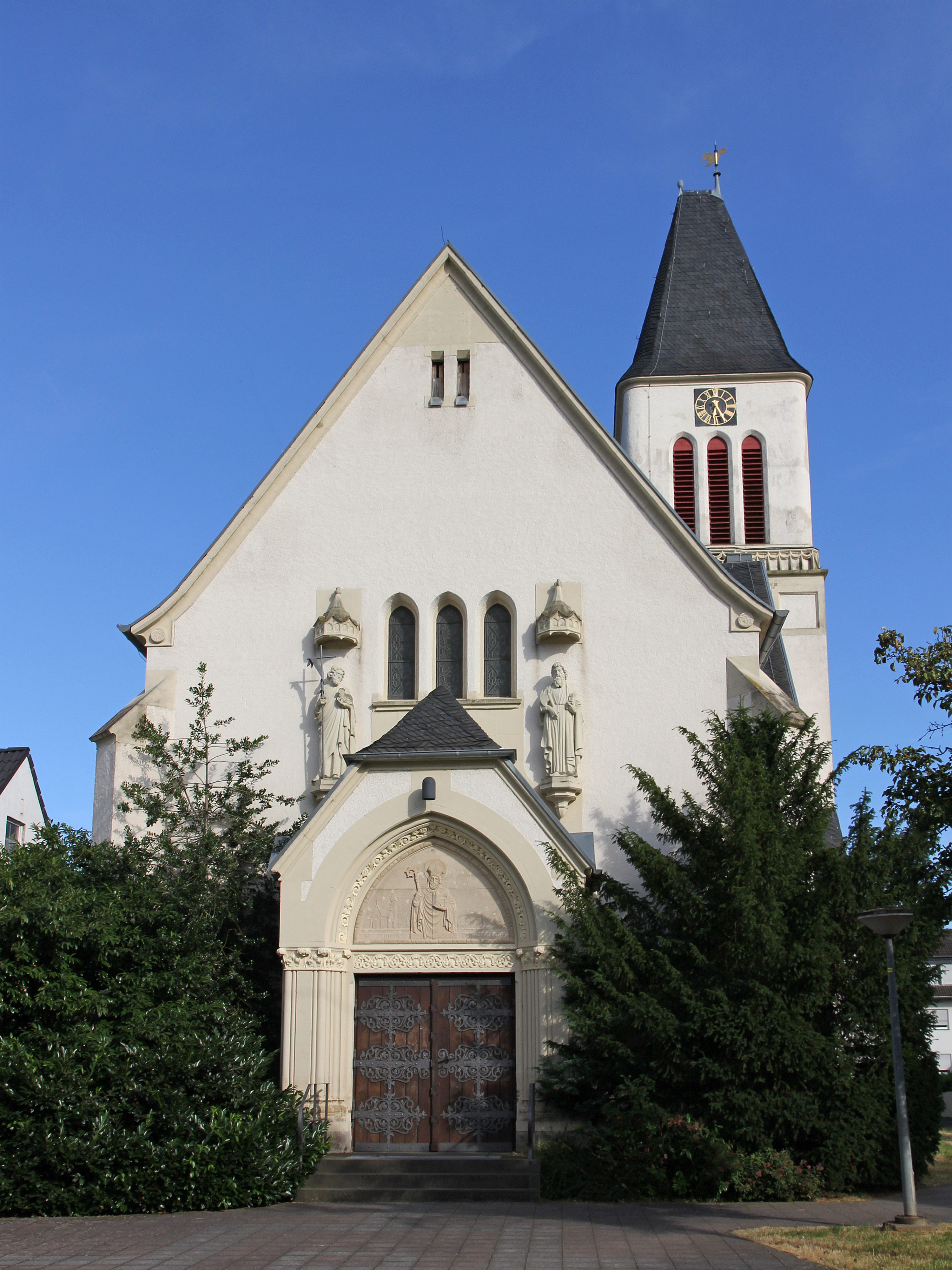 St. Maternus chapel in Koblenz